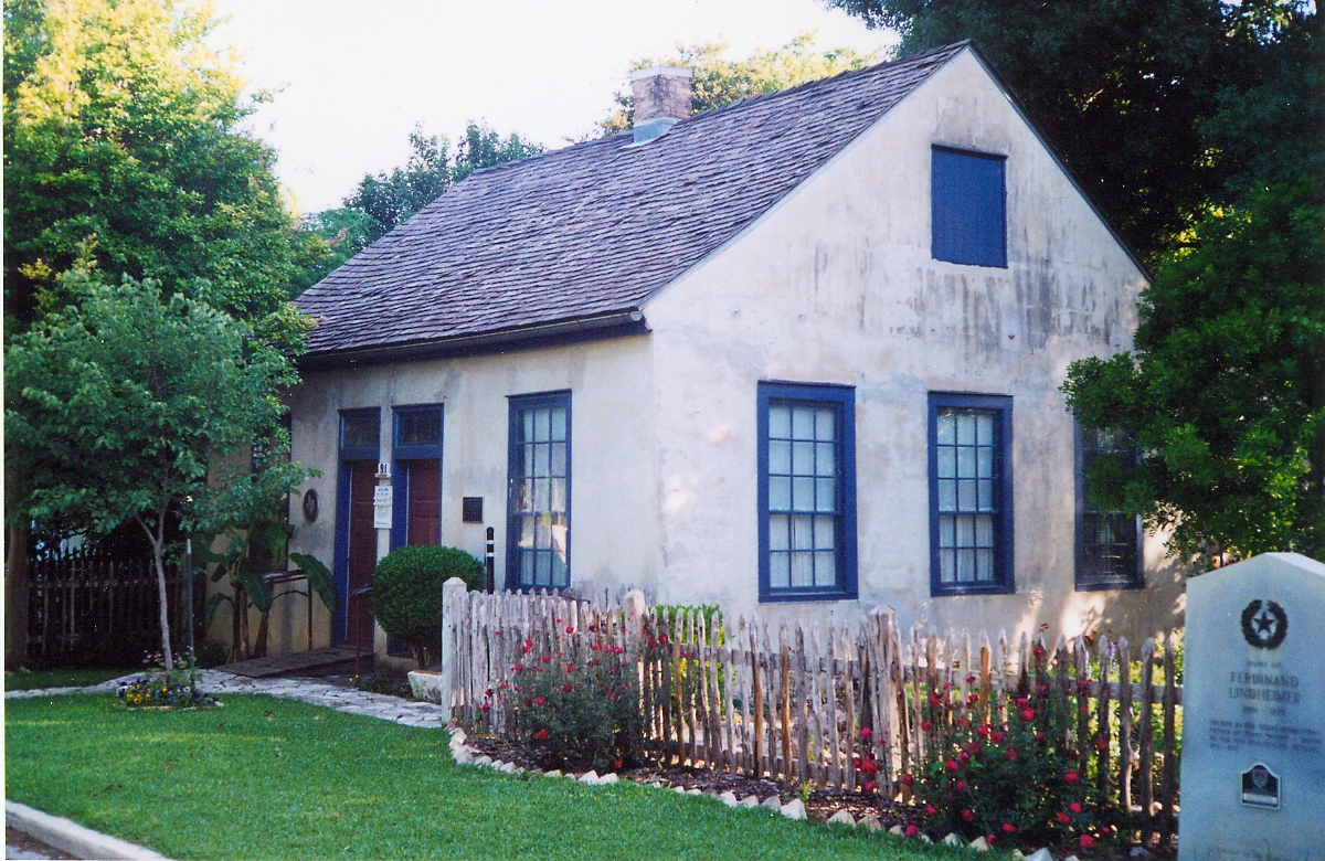 The Lindheimer home, New Braunfels, Texas, USA. Ferdinand Lindheimer (1801–1879), a botanist was first to classify much of native Texas flora; more than 30 varieties bear his name. He was the founder and editor of the New Braunfelser Zeitung Newspaper.